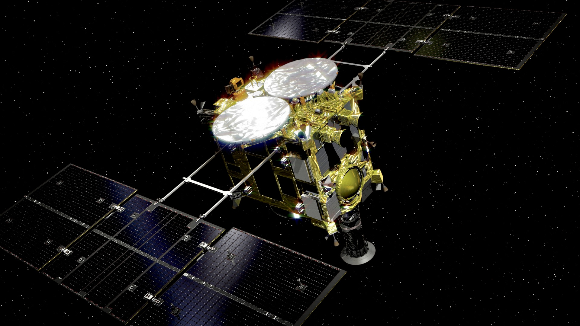 Japanese spacecraft Hayabusa 2 follow-on of the asteroid sample return mission Hayabusa. The target is asteroid (162173) 1999 JU3 with a proposed launch in November–December 2014.